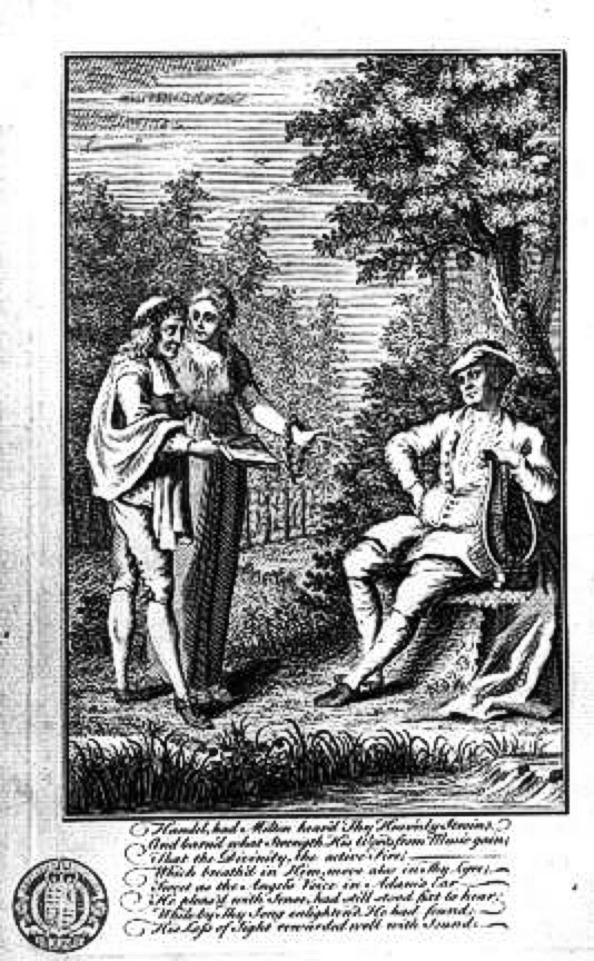 Engraving of "Milton, led by the muse Calliope, presenting his works to Handel" being frontispiece of "The New Calliope", a collection of music and songs.